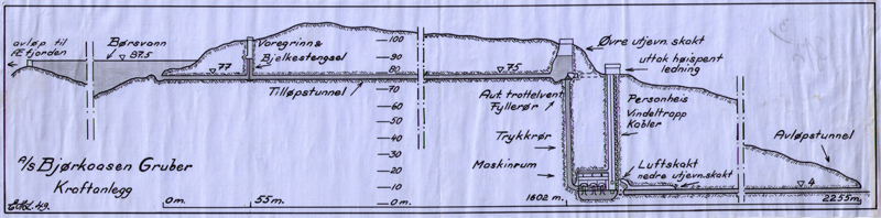 Drawing of tunnel, pressure shaft and power station. Bjørkåsen power plant in Balangen, Nordland. One of the first hydroelectric plants in Europe completely built in the mountains.